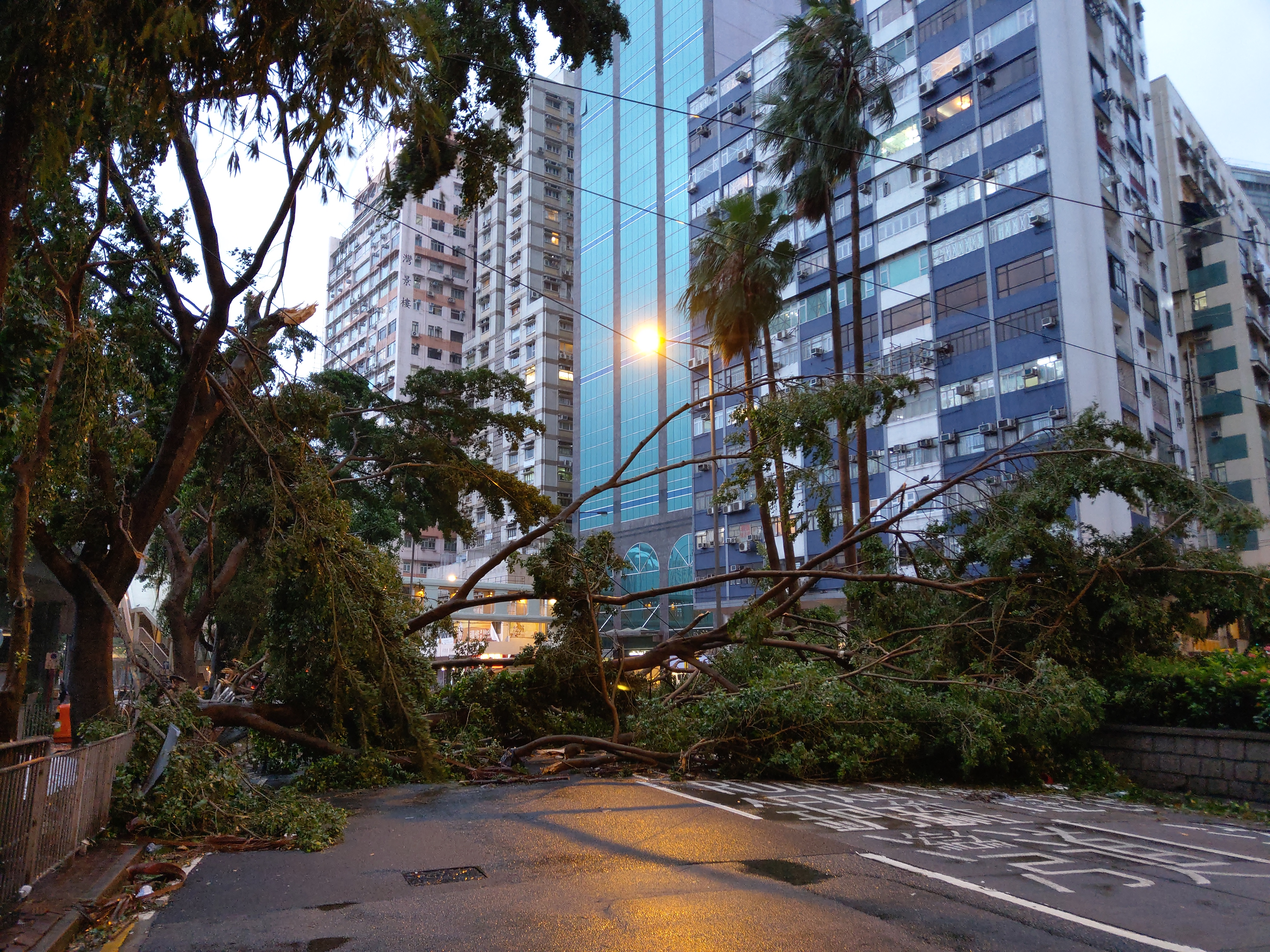 Fallen trees block Yee Wo Street in Causeway Bay, Hong Kong, after Typhoon Mangkhut.